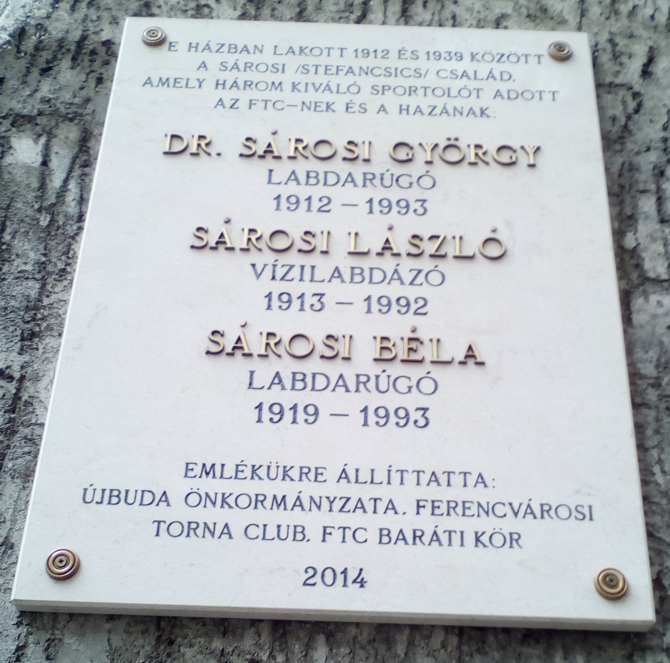 Dr. György Sárosi, László Sárosi (swimmer), and Béla Sárosi commemorative plaque in Budapest District XI, Budafoki Street No 10/b.